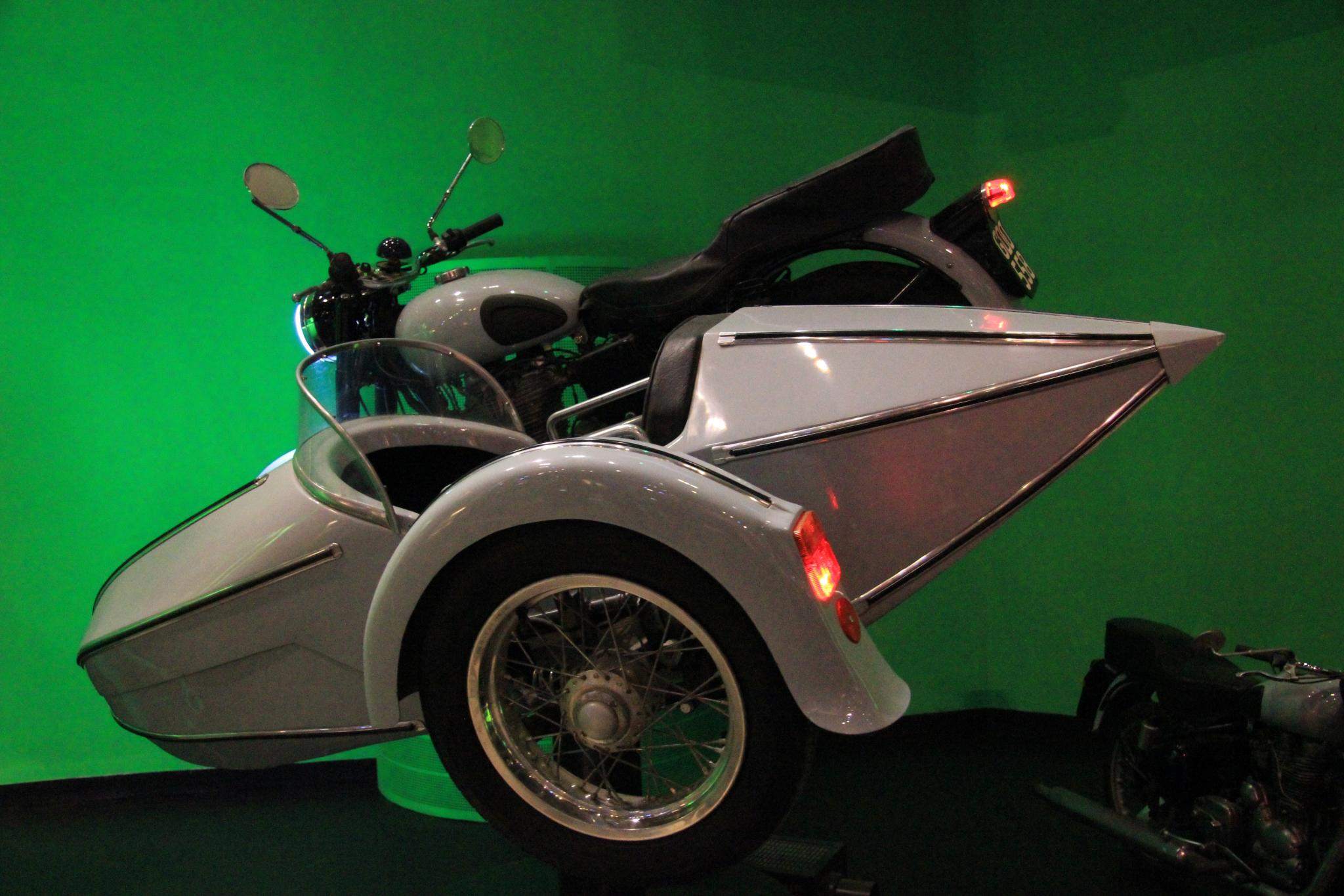 The Vault Cart used on the shoot of the movie "Harry Potter and the Deathly Hallows - Part 1".